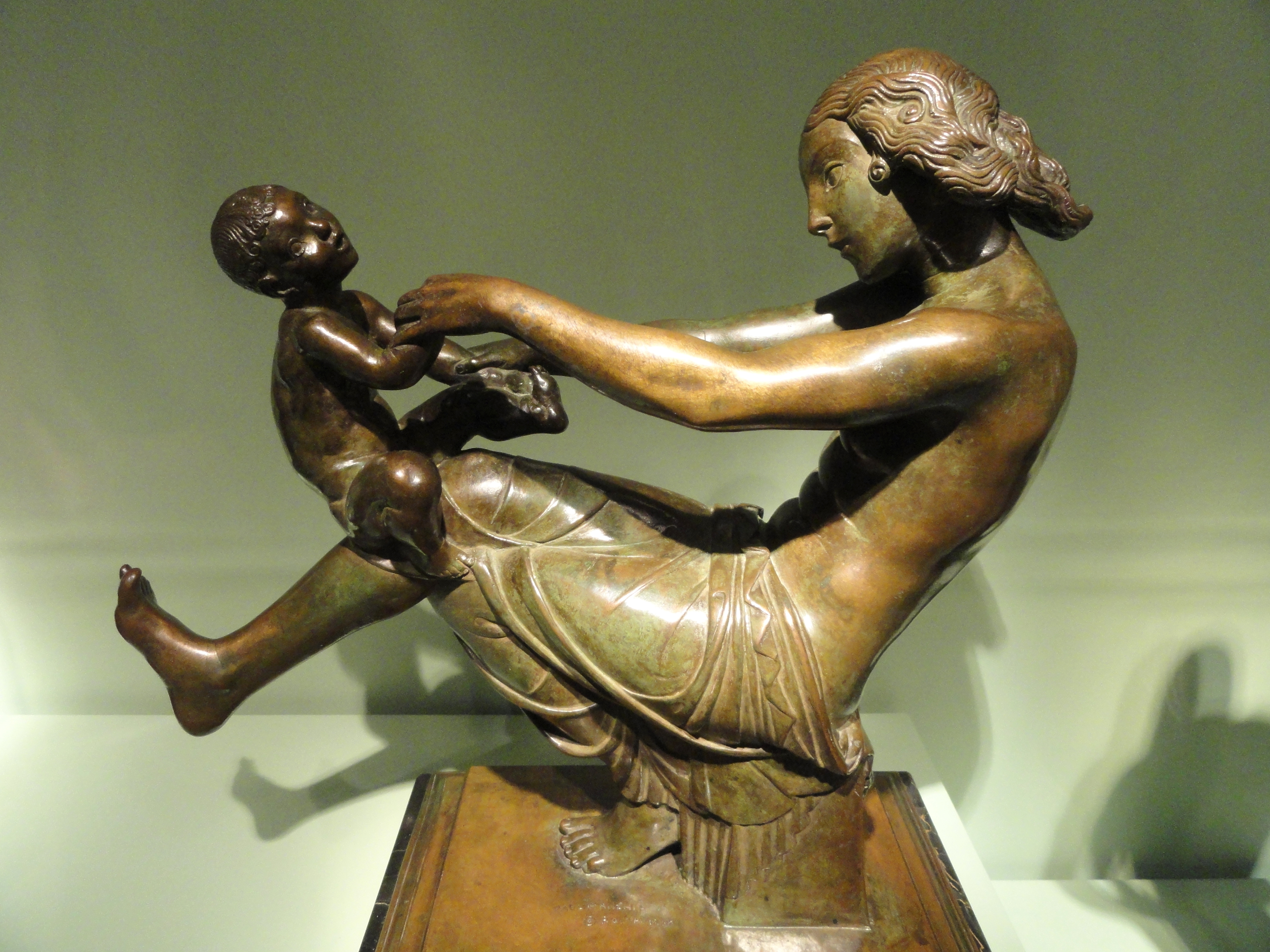 Playfulness by Paul Manship, 1912-1914. Exhibited in the National Portrait Gallery, Washington, DC, USA. Photography was permitted in the museum.